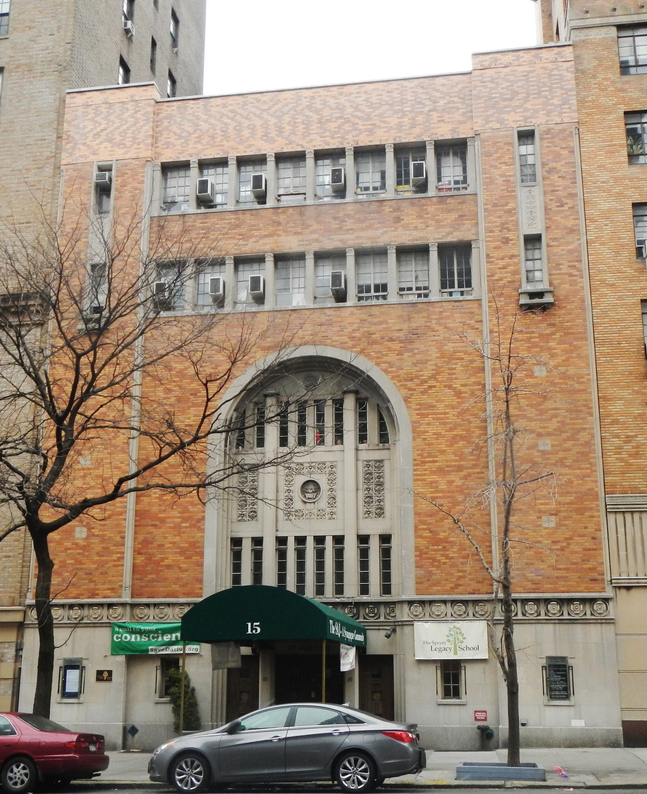 Looking north at SAJ on a cloudy day.